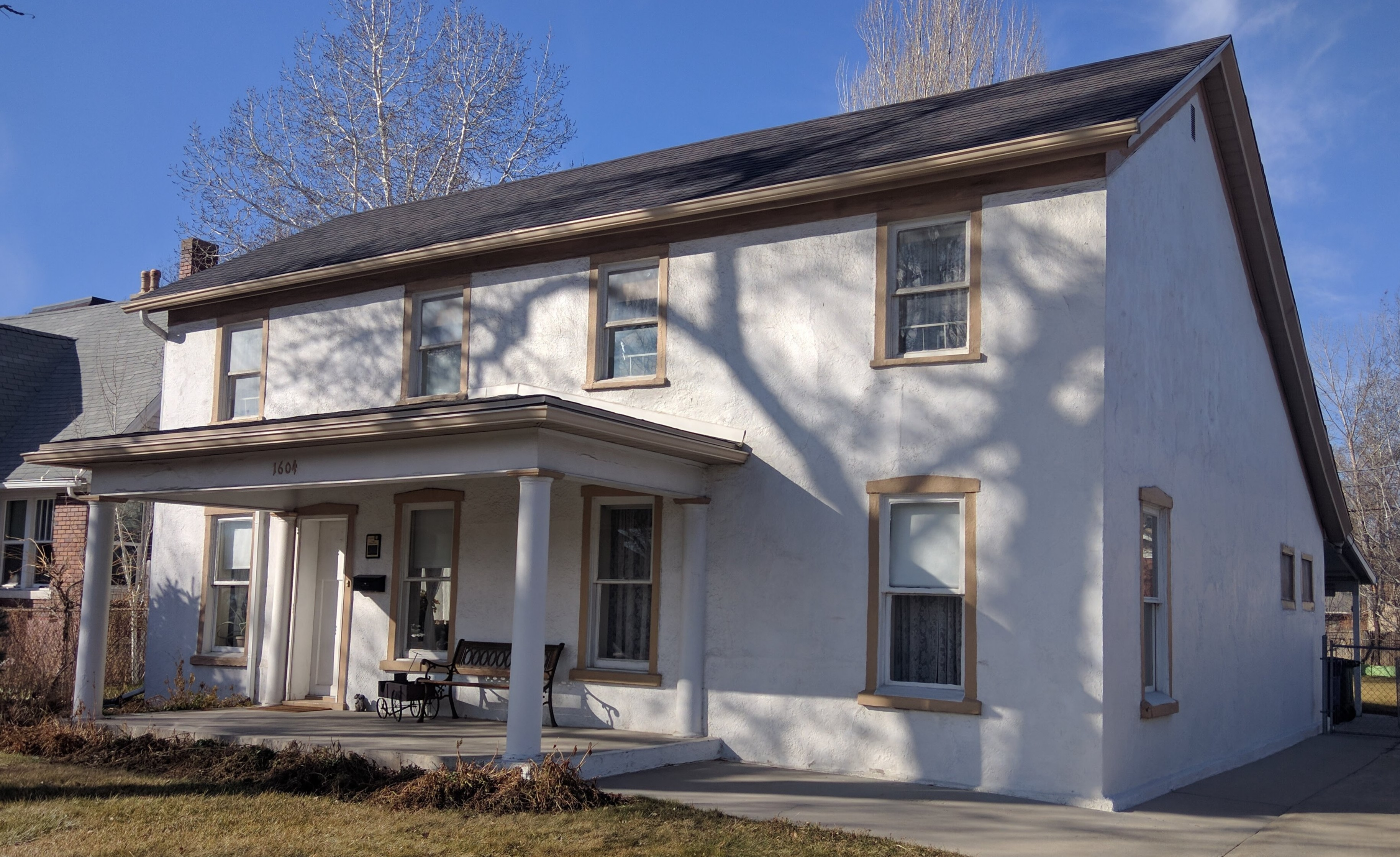 Wilford Woodruff Farm House The Wilford Woodruff Farm House, a historic building on 500 E Salt Lake City, Utah.